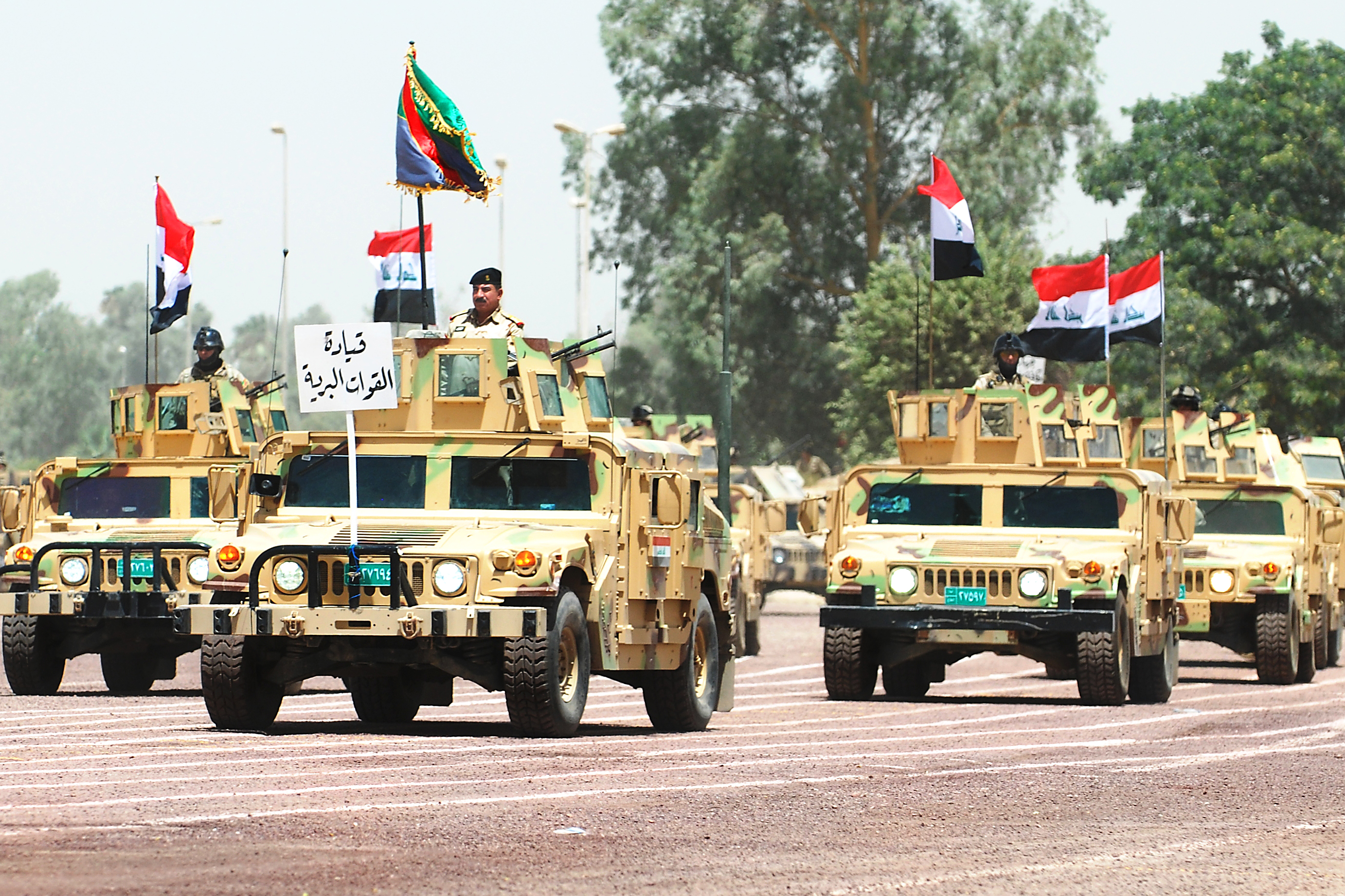 Iraqi security forces passed for review before those representing Iraqi military and civil leadership in Baghdad, June 30, 2009.